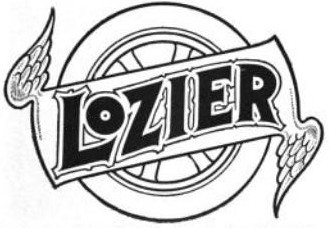 The Lozier Motor Company of New York City - 1906